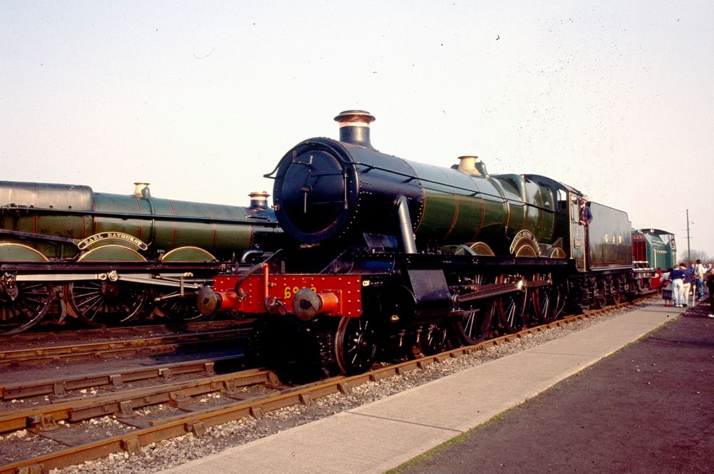 GWR No. 6998 Burton Agnes Hall